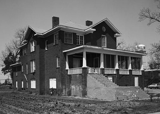 Isaiah Thornton Montgomery House, West Main Street, Mound Bayou (Bolivar County, Mississippi) (cropped). Image courtesy of Historic American Buildings Survey—HABS.